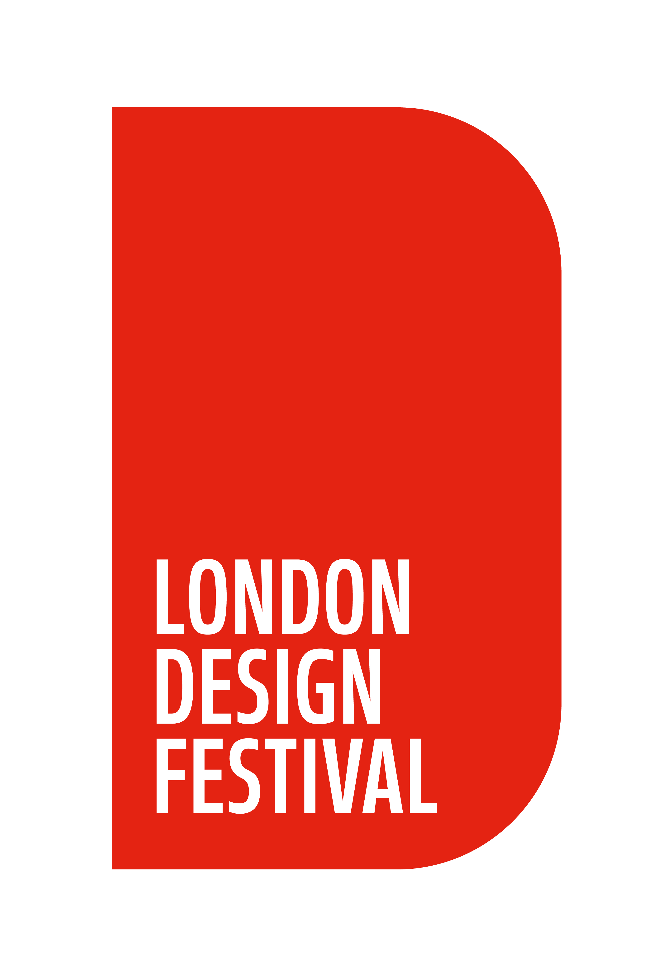 London Design Festival logo 2019